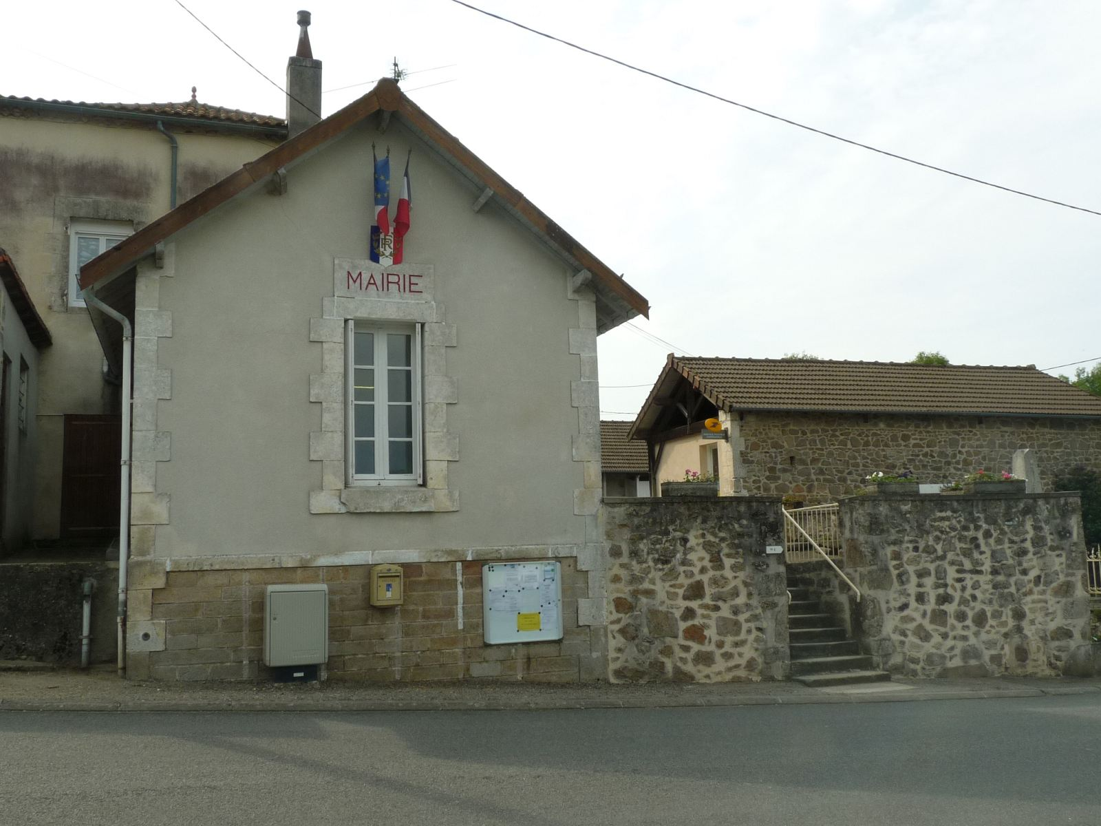 town hall